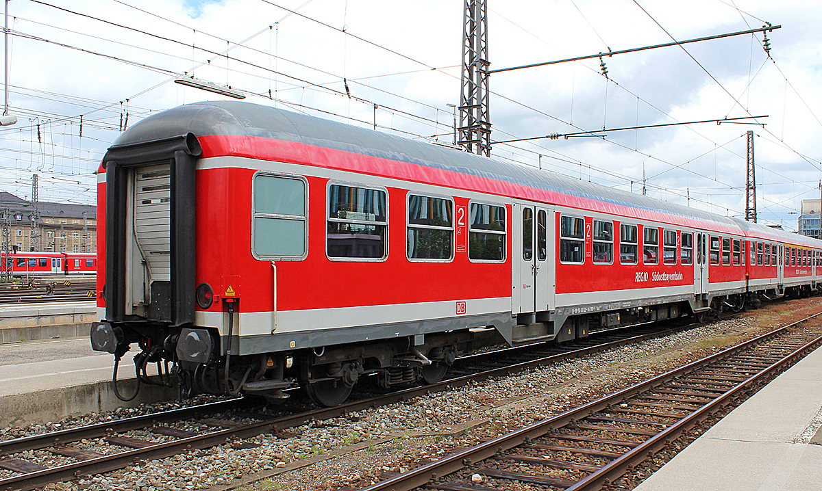 Old German regional traffic coach, used in rush hour trains on Munich - Mühldorf line. Modernized in the early 90s, still with old windows and without toilet with holding tank.